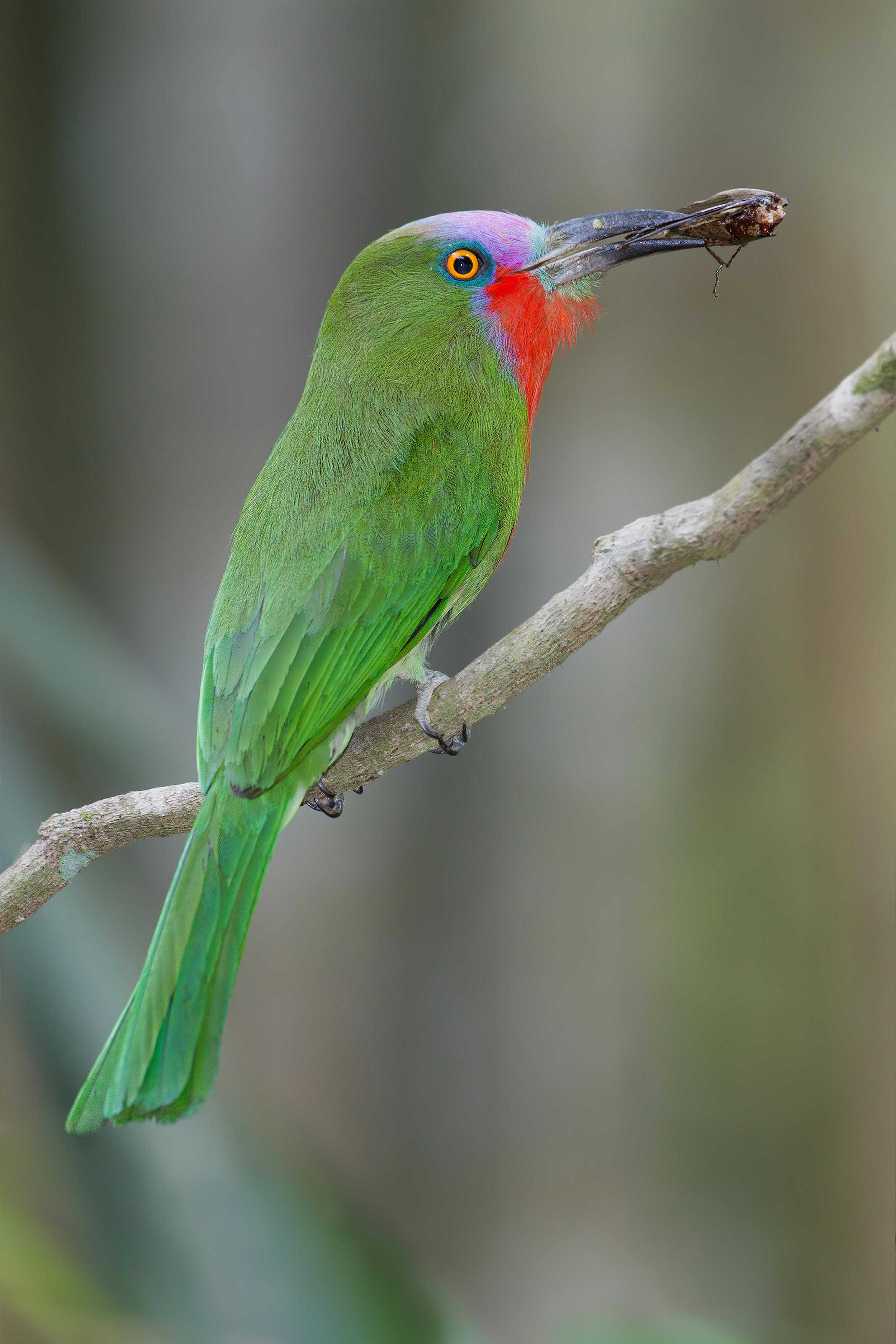 Red-bearded Bee-eater (Nyctyornis amictus), Kaeng Krachan National Park, Phetchaburi, Thailand